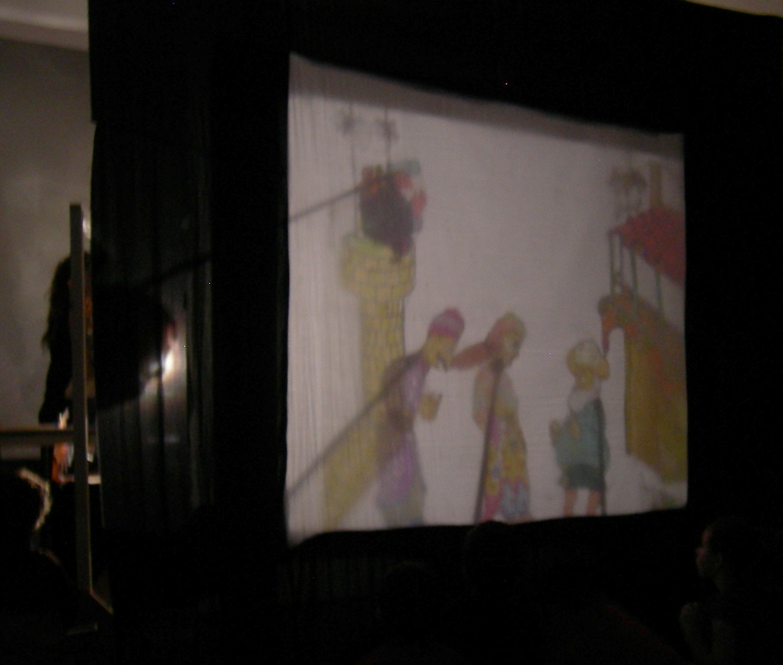 Craig Jacobrown puppet troupe presents a child-friendly Karagöz and Hacivat shadow play at TurkFest, Center House, Seattle Center, Seattle, Washington, USA.